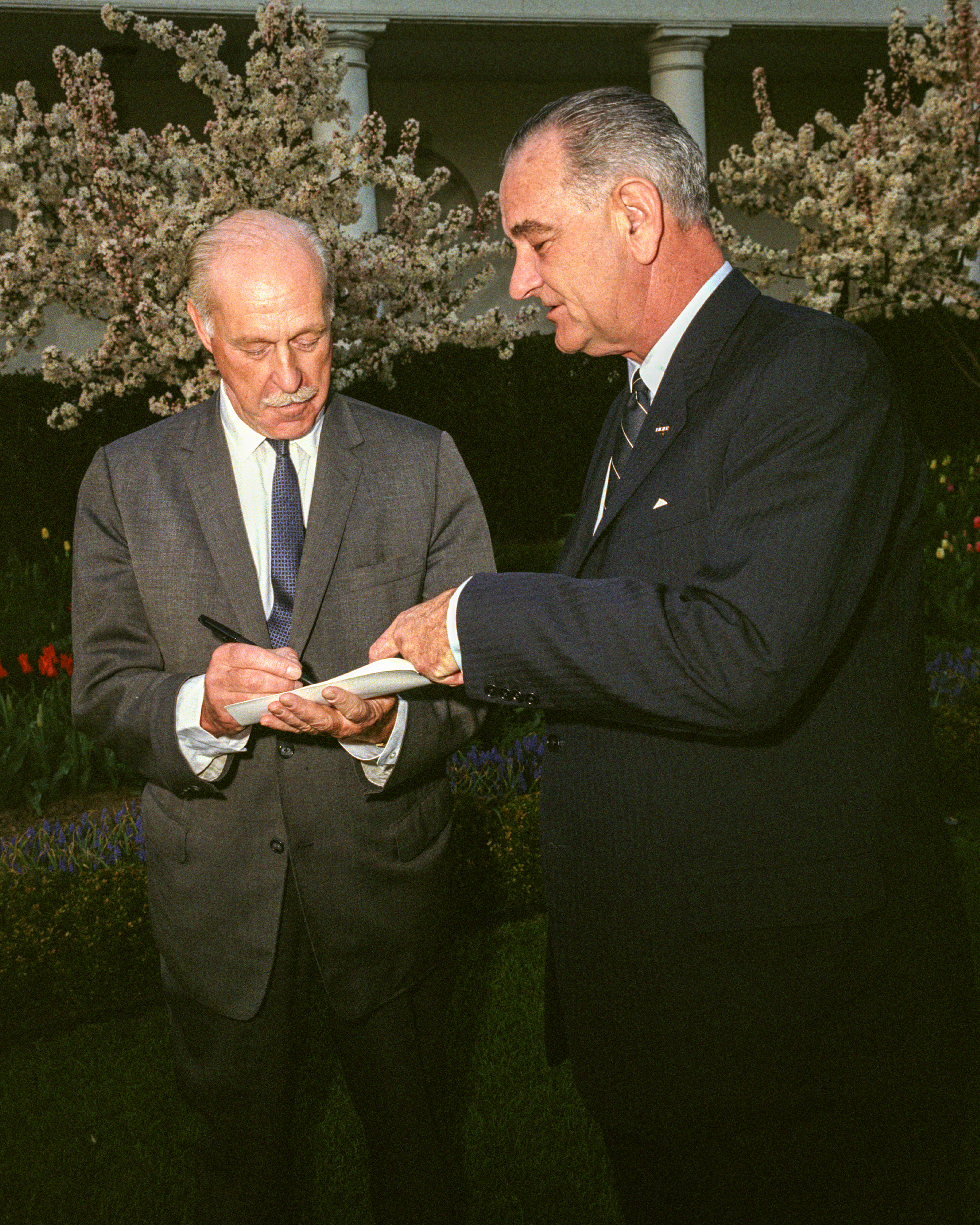 Journalist Drew Pearson in the White House Garden with President Lyndon Johnson, April 1964.